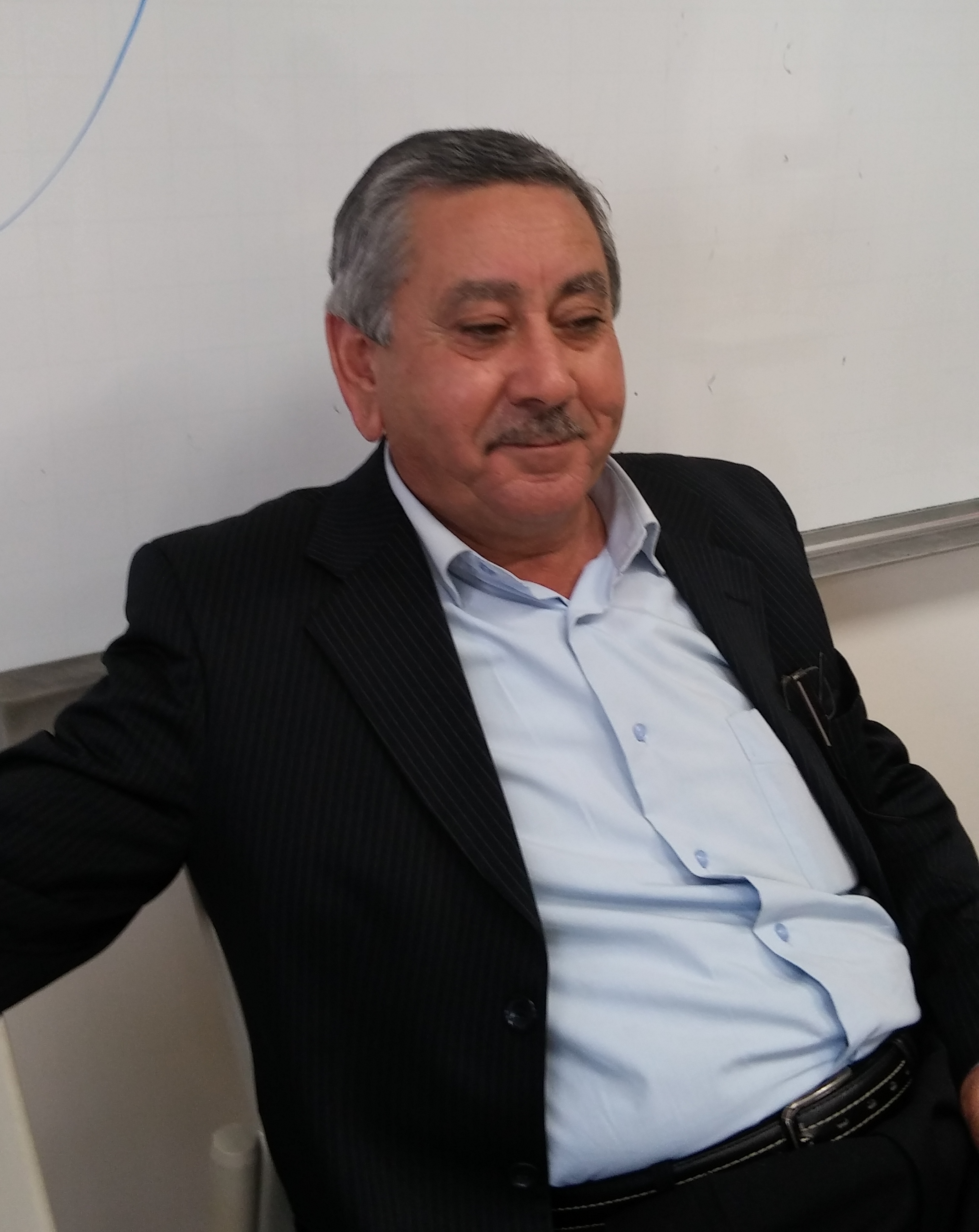 Talal Al Karnawai Mayor of Rahat